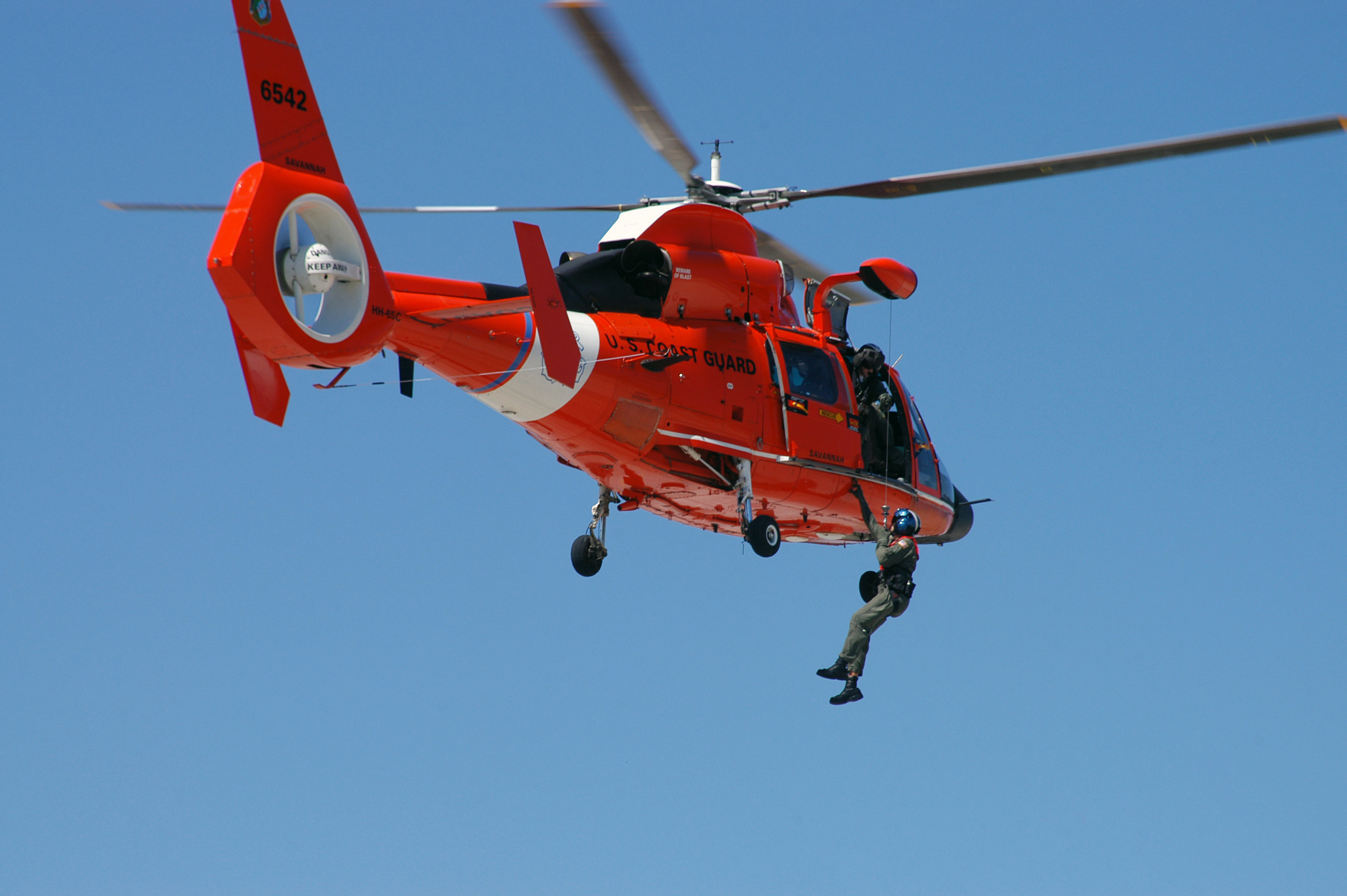 Members of the United States Coast Guard (USCG) Savannah Station use a USCG HH-65C Dolphin Short Range Recovery Helicopter to demonstrate a helicopter rescue for the participants at the Southeast Region 4 Exercise 2006 (SER4EX06). The SER4EX06 is a joint disaster recovery exercise involving local, state, and federal resources, including National Guard units from every state in the southeast region and members from three foreign countries. Savanah CRTC, Georgia, USA.